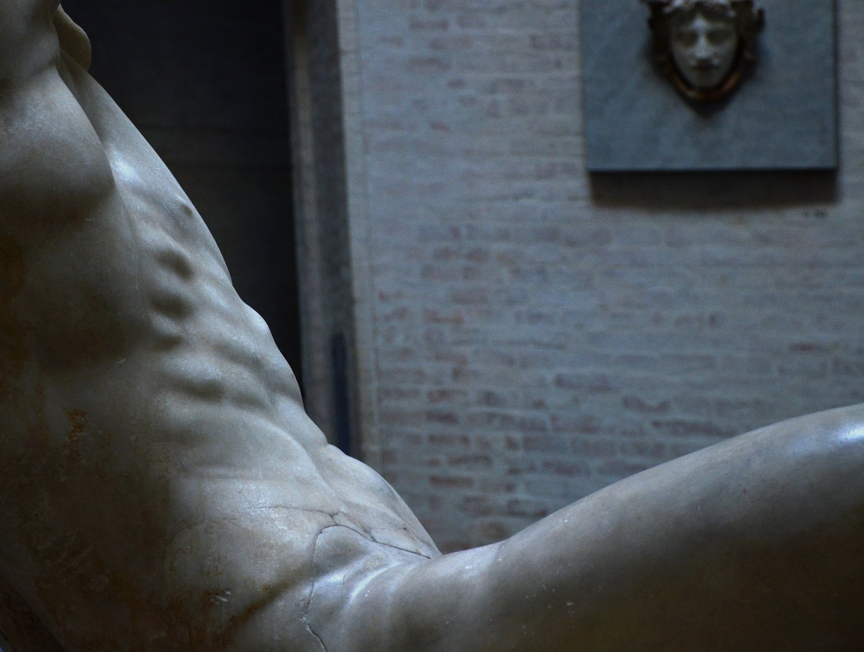 Detail of the Barberini Faun, a marble hellenistic statue from the late 3rd or the early 2d century BC, or a Roman copy of it. Was restored during the 17th and 18th century. Glyptothek, room 2, in Munich.